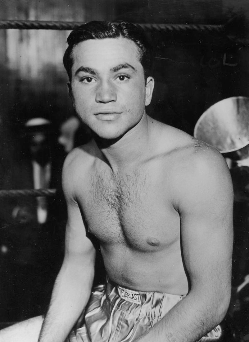 Barney Ross Boxing Lightweight Champion 1934 Press Wire Photo